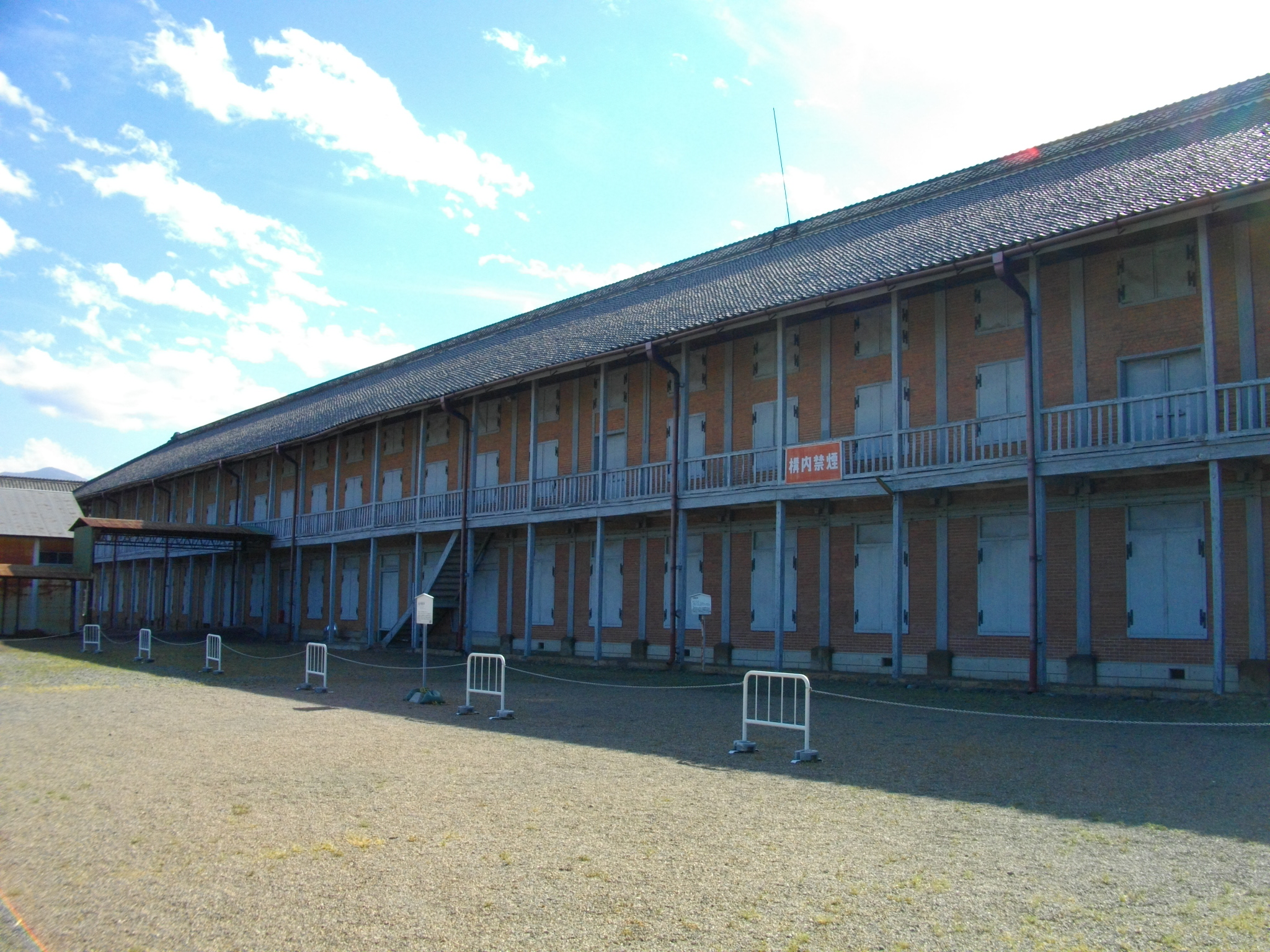 Tomioka Silk Mill West Cocoon Warehouse